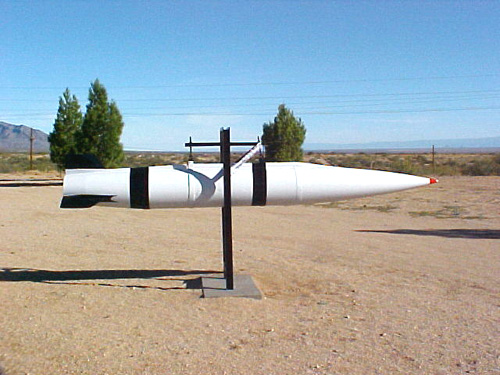 An air-to-surface missile launched from B-52 and F-111 aircraft